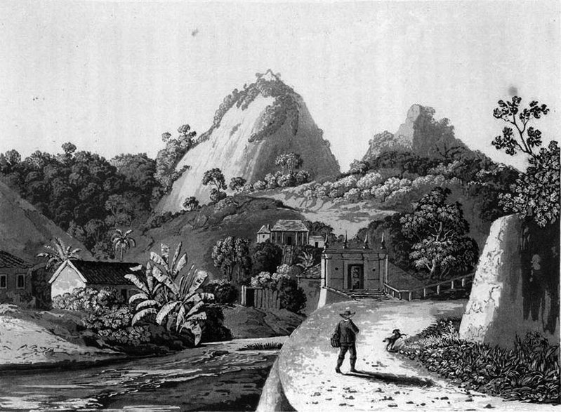 Laranjeiras outside Rio de Janeiro, drawn by Maria Graham (Maria Callcott) in 1821, One of several illustrations in her book Journal of a voyage to Brazil, and residence there, during part of the years 1821, 1822, 1823., published in London 1824.